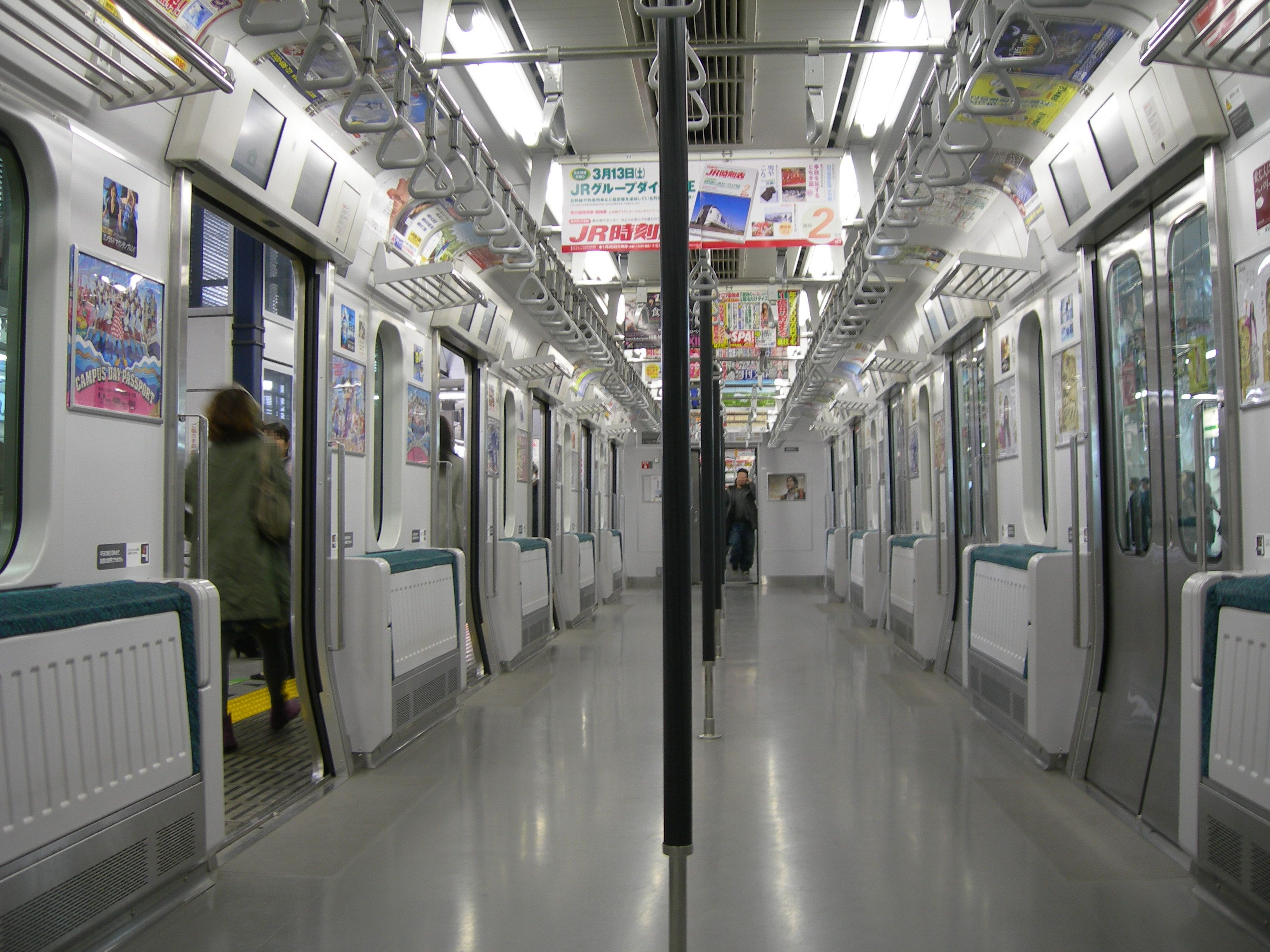 Interior of a JR East Yamanote Line E231-500 series EMU SaHa E230-500 6-door car with seats folded up